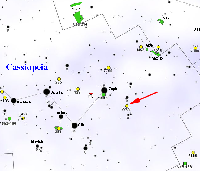 Map of NGC 7789